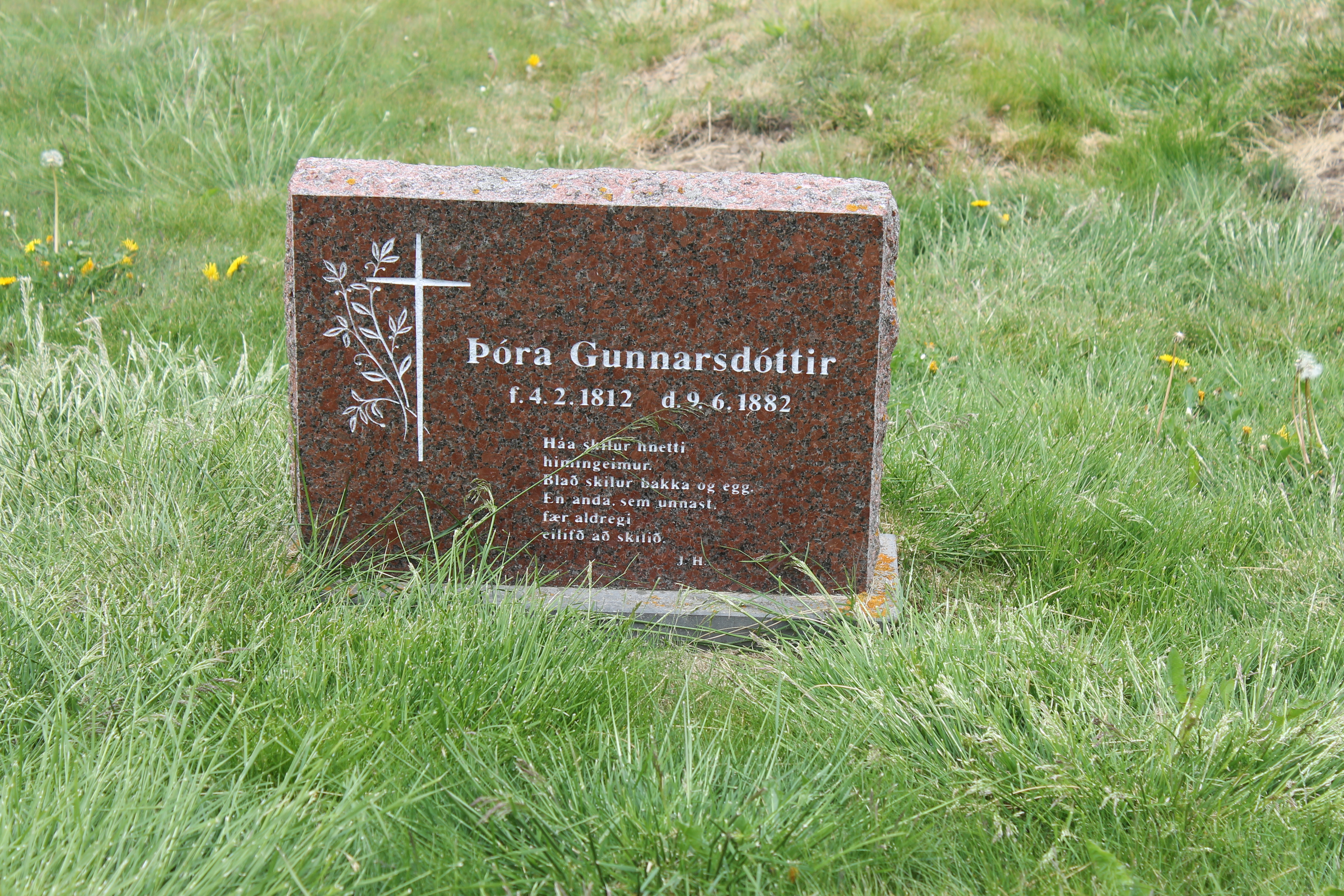 The tombstone of Þóra Gunnarsdóttir at Hólar in Hjaltadalur, Skagafjörður, Iceland. Þóra was the inspiration for a famous love poem by Icelandic national poet Jónas Hallgrímsson.